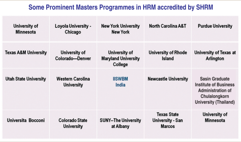 IISWBM SHRM